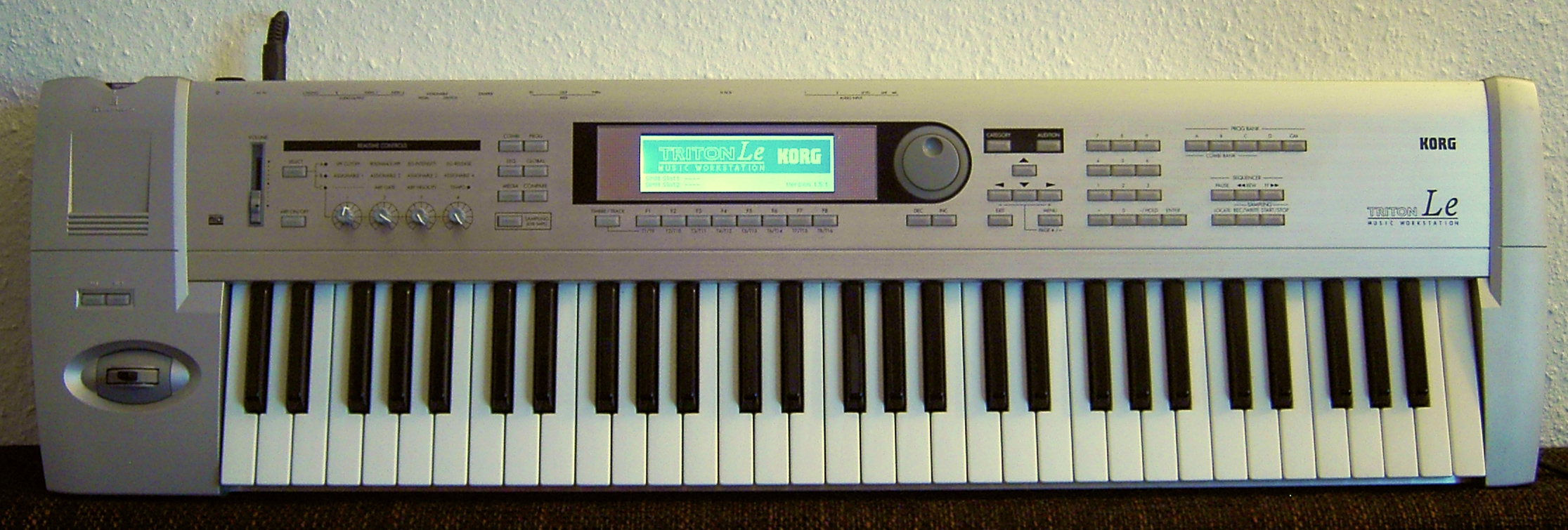 Music workstation synthesizer Korg Triton Le.